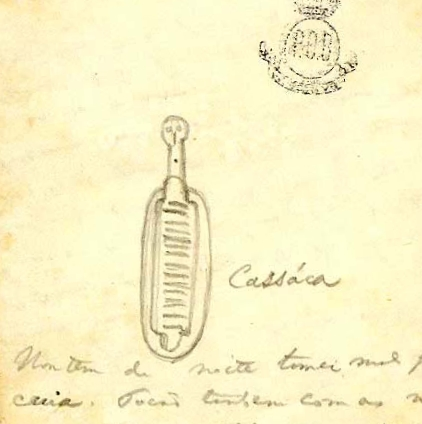 Casaca drawn by emperor Pedro II of Brazil when visiting Nova Almeida village